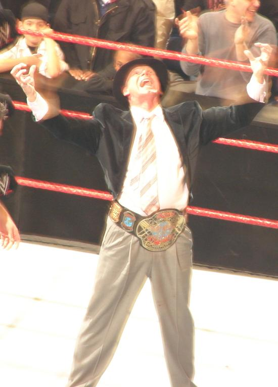 Vince McMahon as the ECW Champion. He won the ECW Championship from Bobby Lashley in a 3 on 1 Handicap match where Shane McMahon and Umaga assisted as partners with Vince (as "Mr. McMahon").